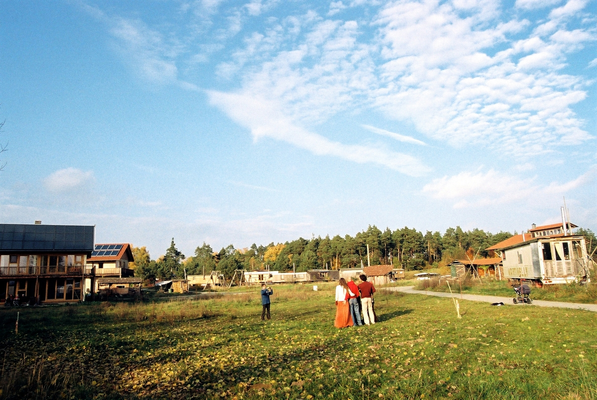 Future inhabitants of house "Nachtigall" at the building location (Sieben Linden Ecovillage)